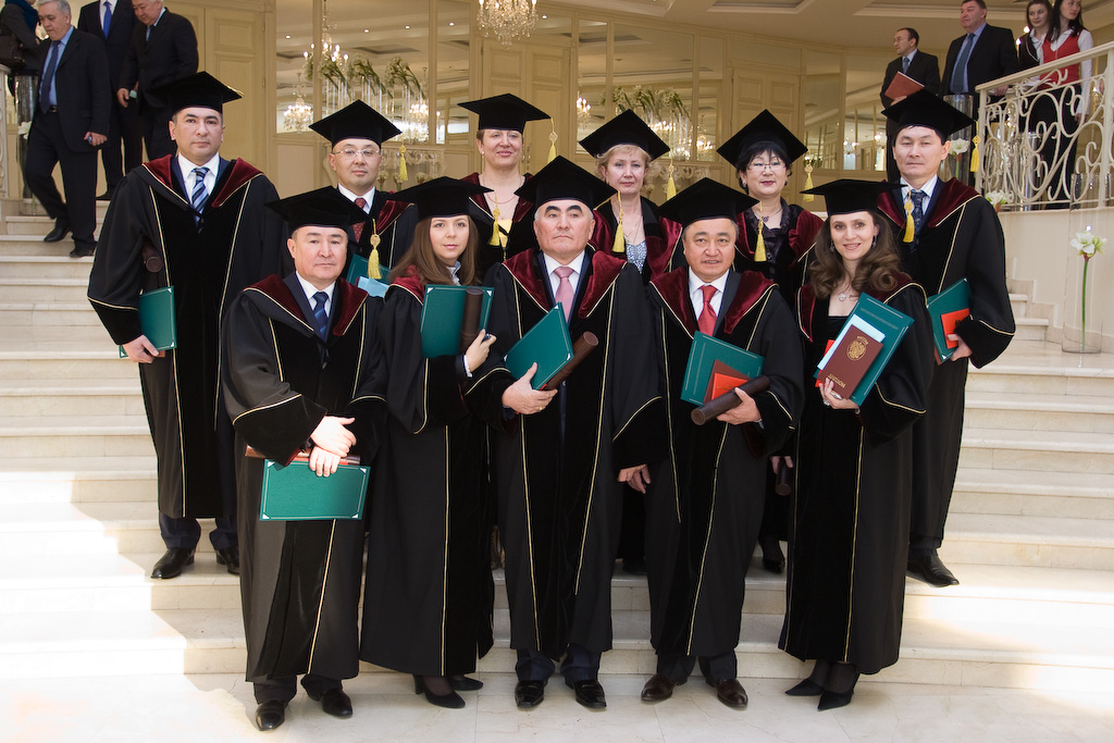 DBA Graduation in International Academy of Business